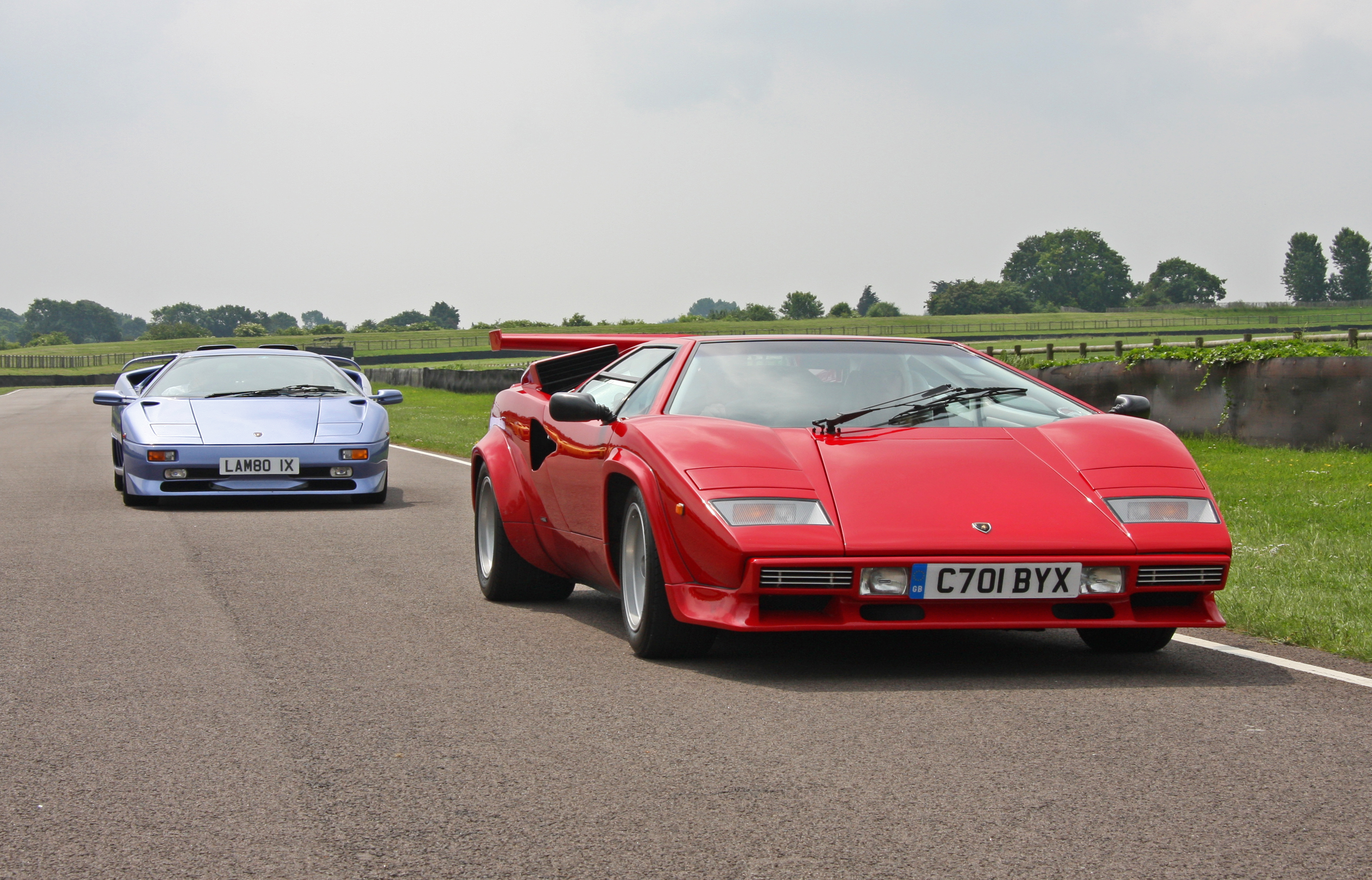 The Diablo (background) was named for a legendary bull, while the Countach (foreground) broke from the bullfighting tradition. ಕನ್ನಡ: ಡಯಾಬ್ಲೊ (ಹಿನ್ನೆಲೆ) ಮಾದರಿಯು ಒಂದು ಐತಿಹ್ಯದ ಗೂಳಿಗಾಗಿ ಹೆಸರಿಸಲ್ಪಟ್ಟರೆ, ಕೌಂಟಾಕ್‌ (ಮುನ್ನೆಲೆ) ಮಾದರಿಯು ಗೂಳಿಕಾಳಗ ಸಂಪ್ರದಾಯದಿಂದ ಹಿಂದೆ ಸರಿಯಿತು.